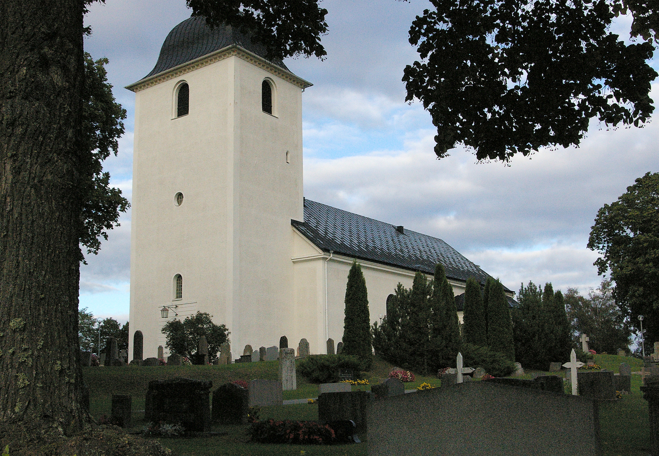 The church of Stora Mellösa in Sweden.